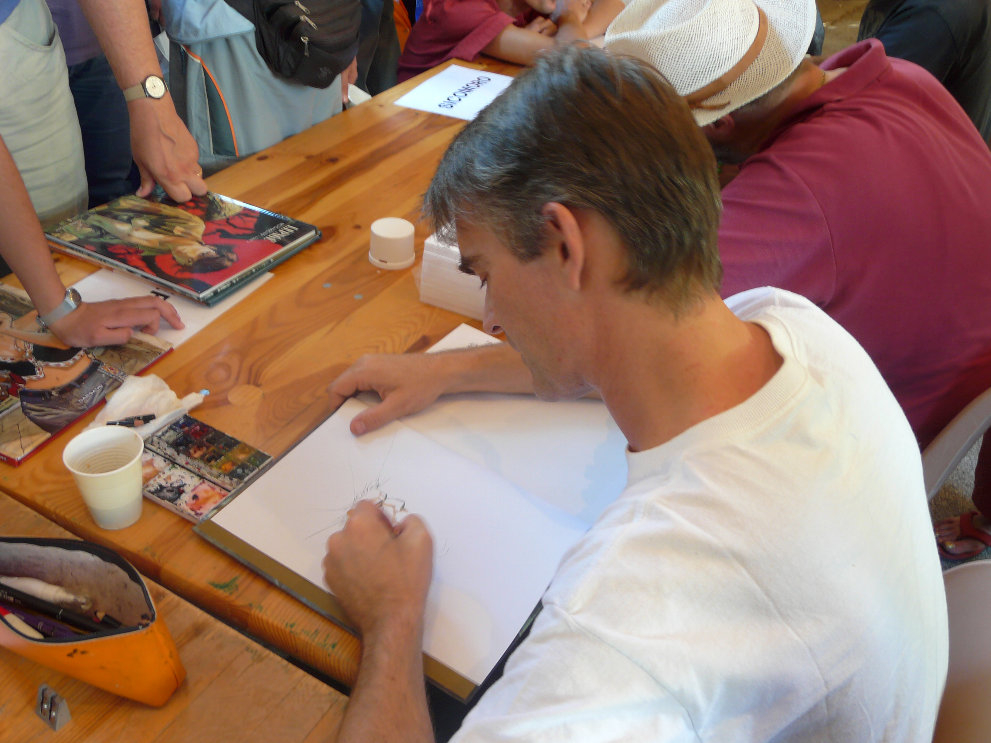 Photographs taken during the International Comic Festival of Sollies Ville, France